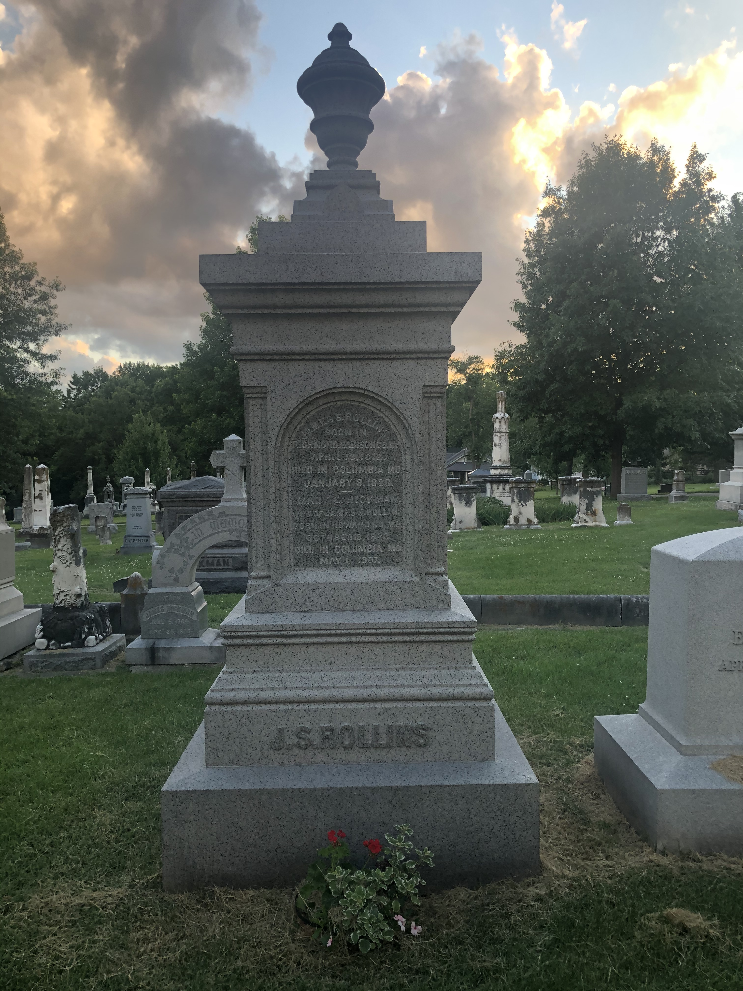 Tombstone of James Sydney Rollins in Columbia Cemetery in June 2020